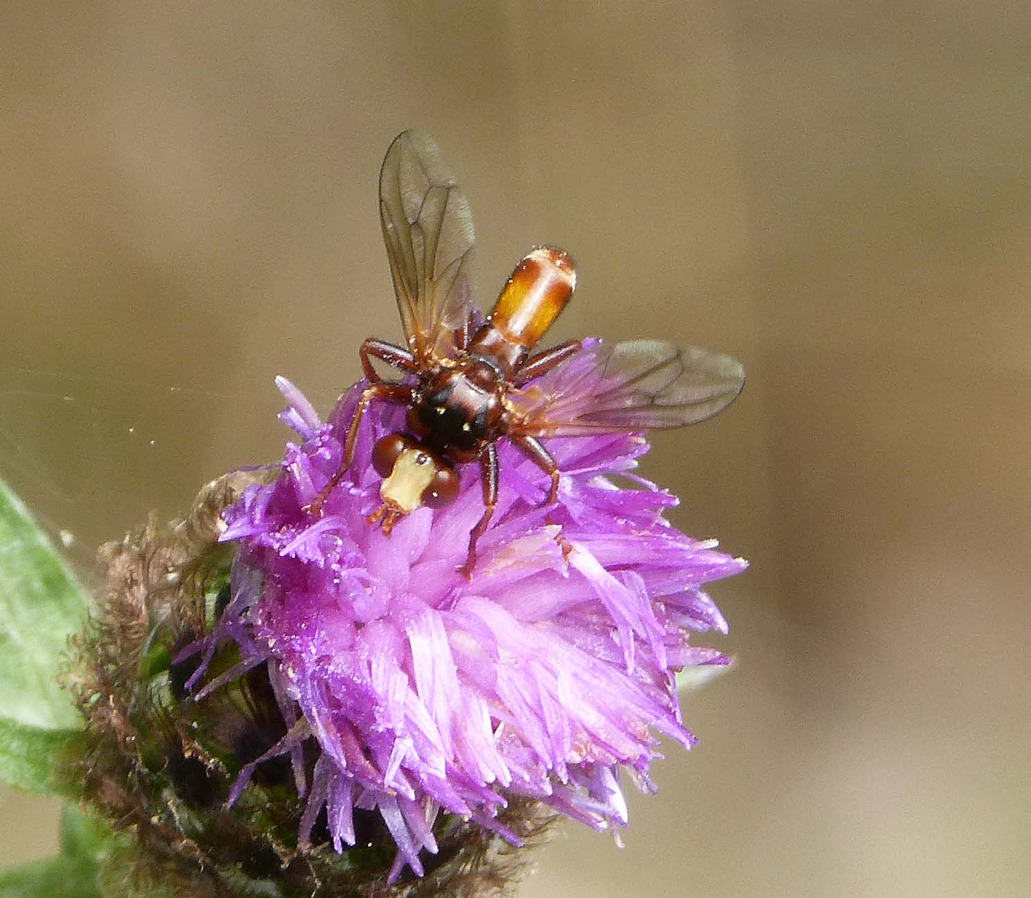 SO7576. Wyre Forest, Worcs